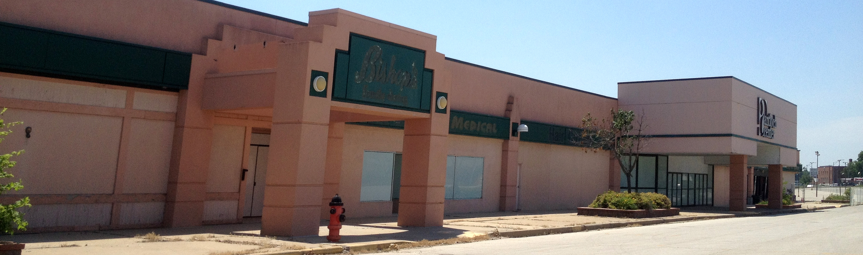 Antioch Center - Kansas City, Missouri, United States